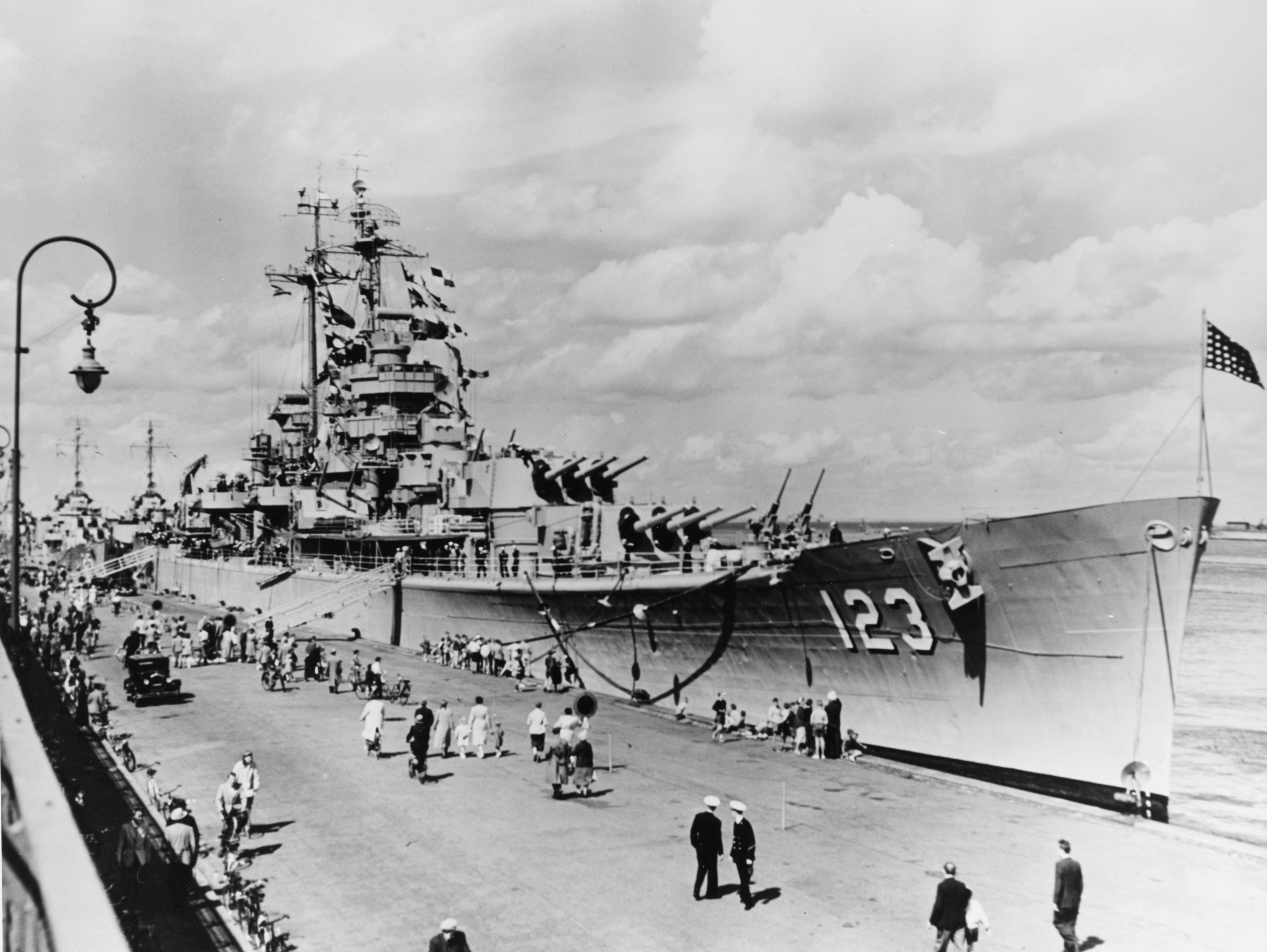 The U.S. Navy heavy cruiser USS Albany (CA-123), during her visit to Copenhagen, Denmark, between 18 and 23 June 1951. The high speed minelayer USS Shannon (DM-25) is among the ships moored astern.